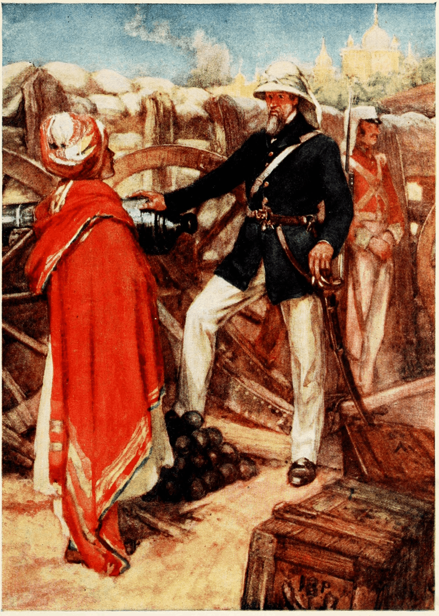 Romance of Empire India